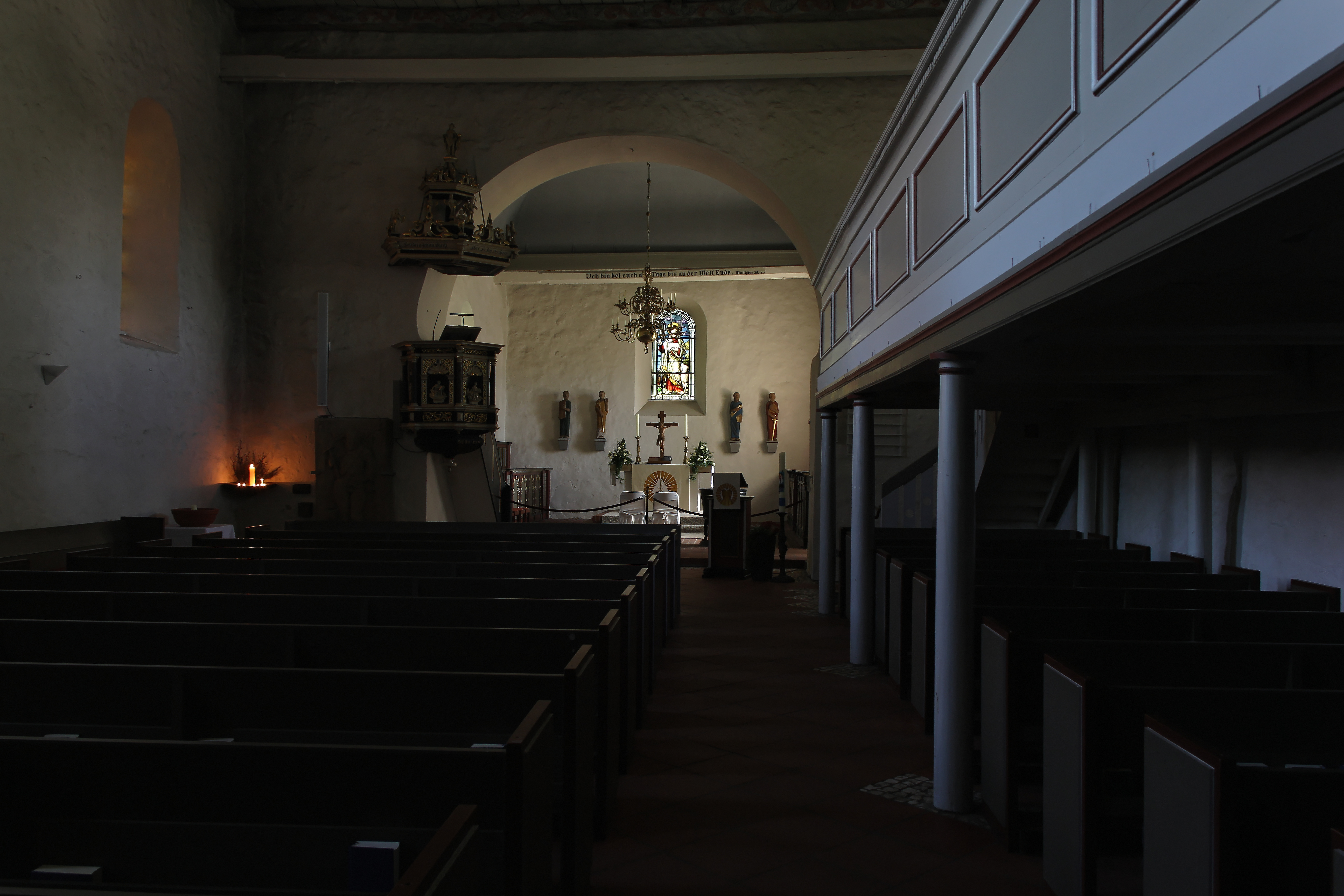 Hittfeld St. Mauritius interior